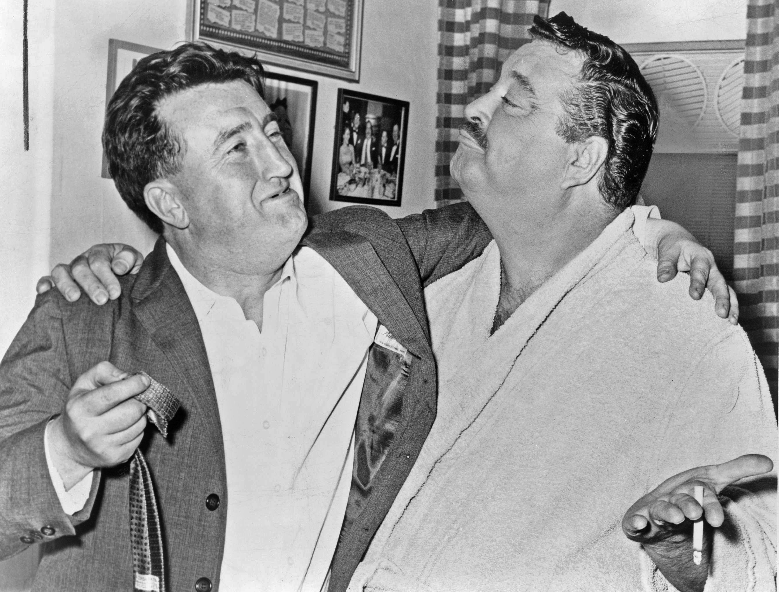 Brendan Behan with Jackie Gleason in Gleason's dressing room at show "Take me along" / World-Telegram photo by Walter Albertin.